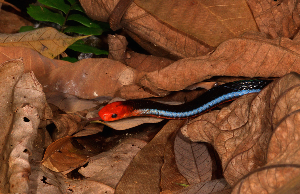 This individual was seen along Venus Drive.